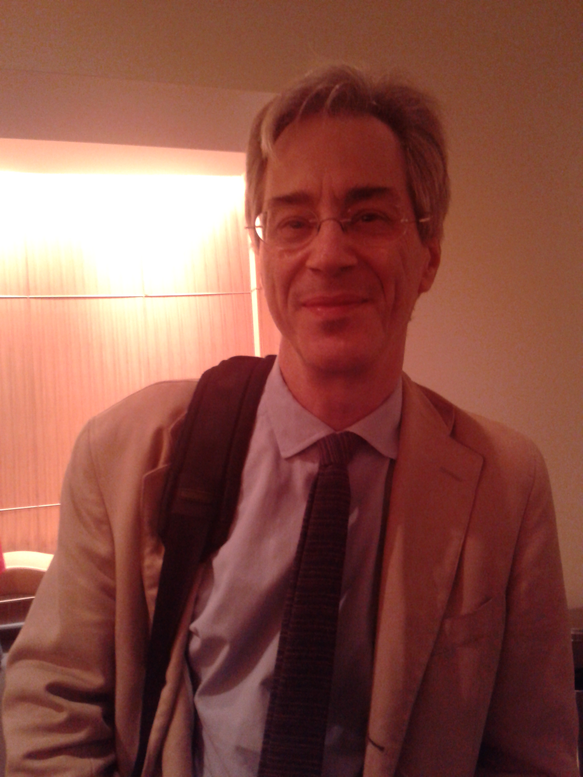 Stephen Jaffe after a performance by the 21st Century Consort at the Smithsonian American Art Museum, 11/7/15